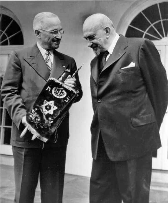 Politics of Israel